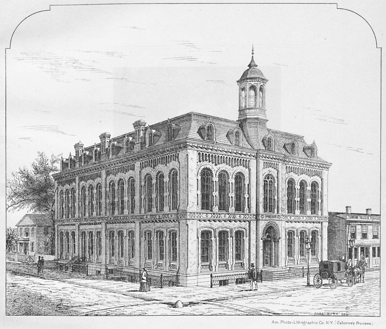 Engraving of Cornell Library in Ithaca, New York, 1867.